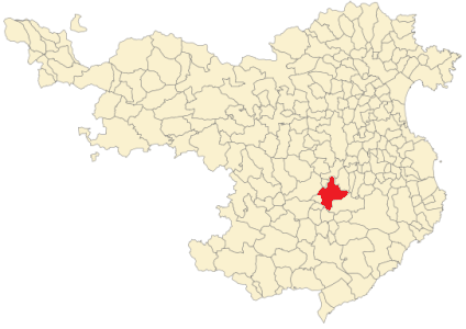 Mapa de localización de Gerona (España)